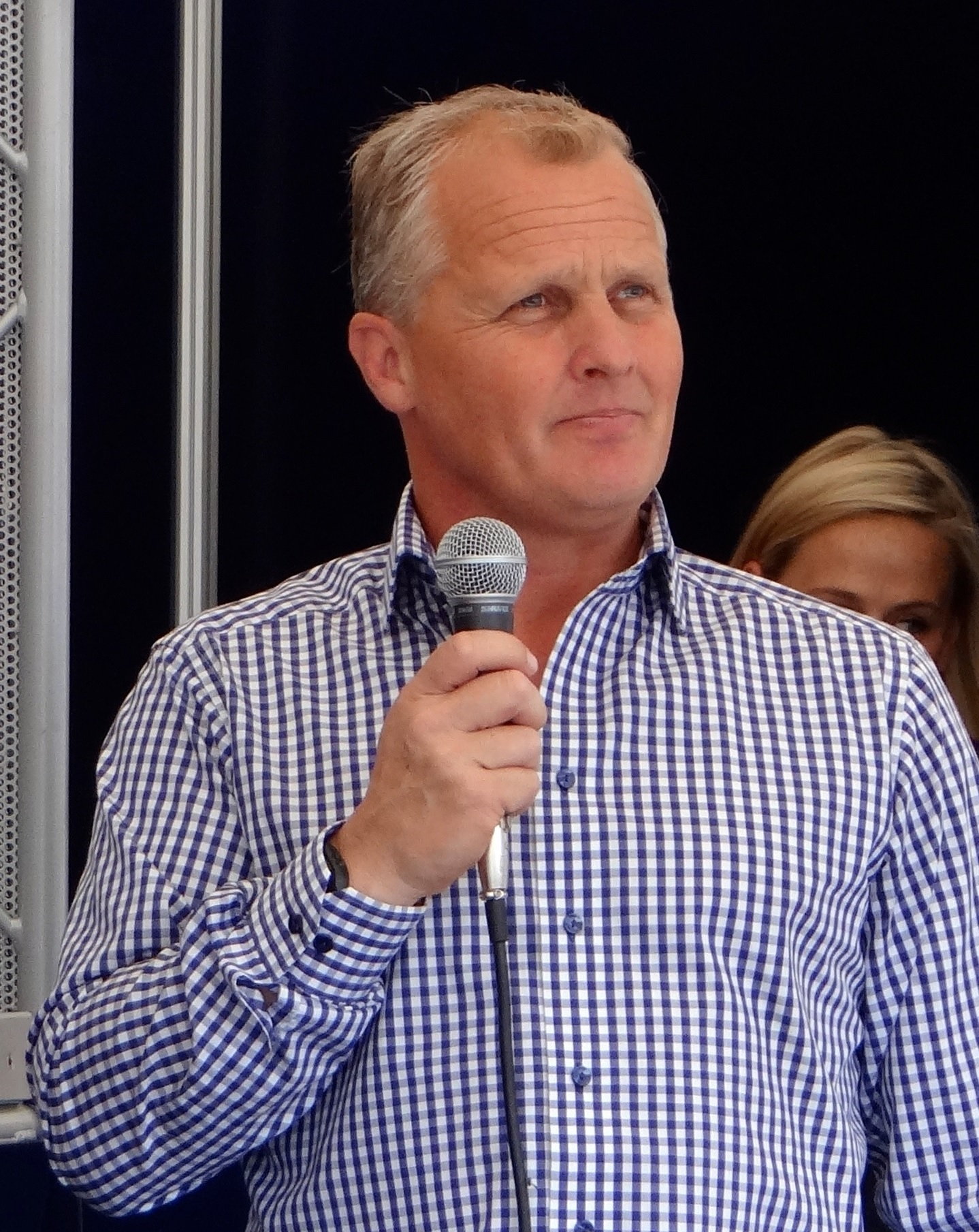 Ex-driver and Sky Sports pundit Johnny Herbert at the 2014 Goodwood Festival of Speed.